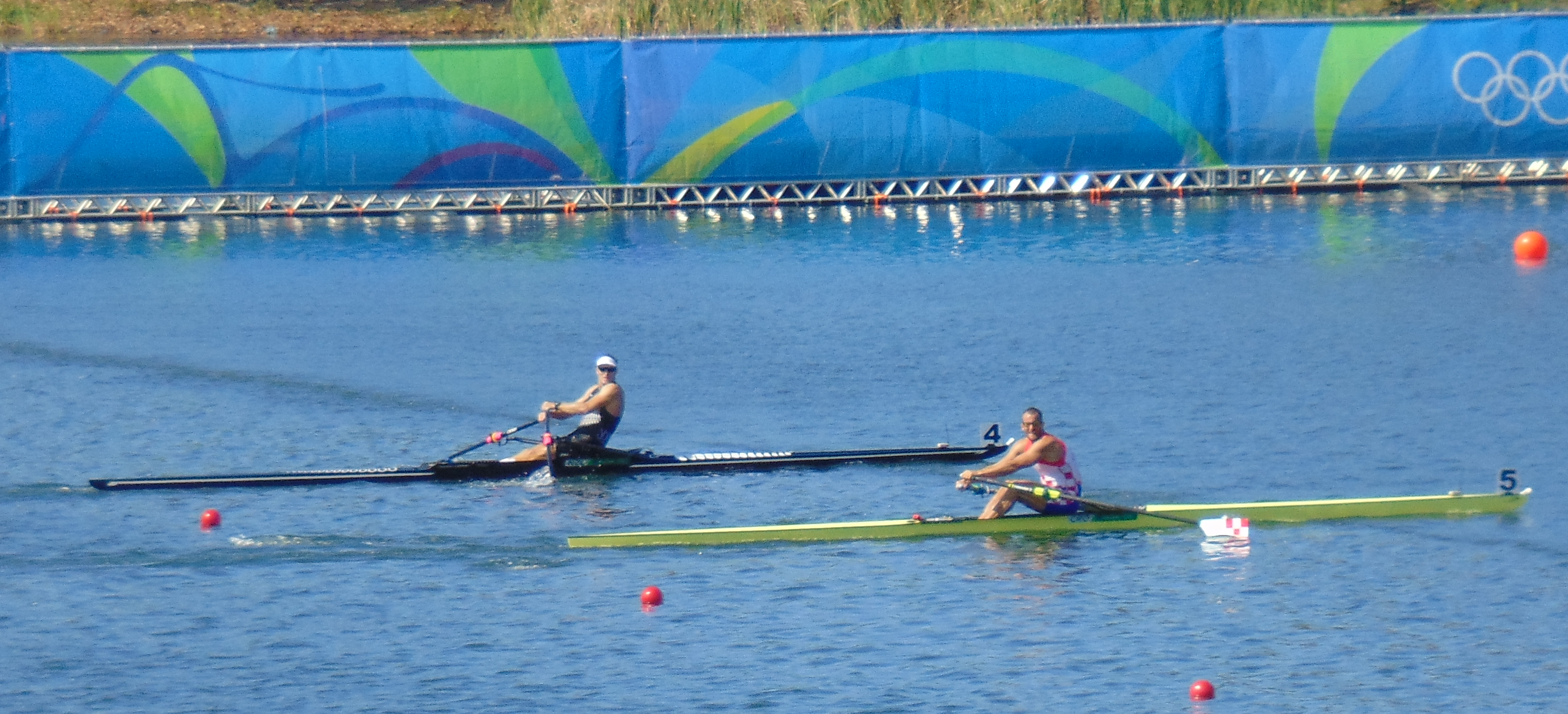 Rio 2016 - Rowing 8 August